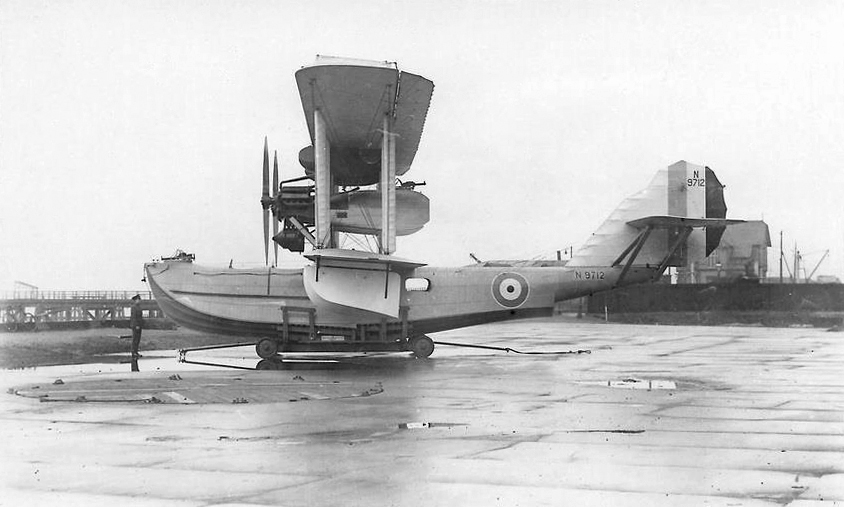 Photograph of the English Electric P.5 Kingston flying boat. Other information Photographed at RAF Felixstowe.